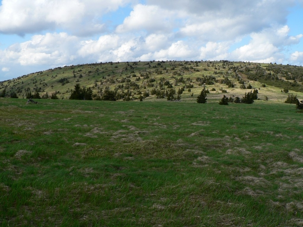 Velky Maj, mountain in Hruby Jesenik Mts, Czech republic.